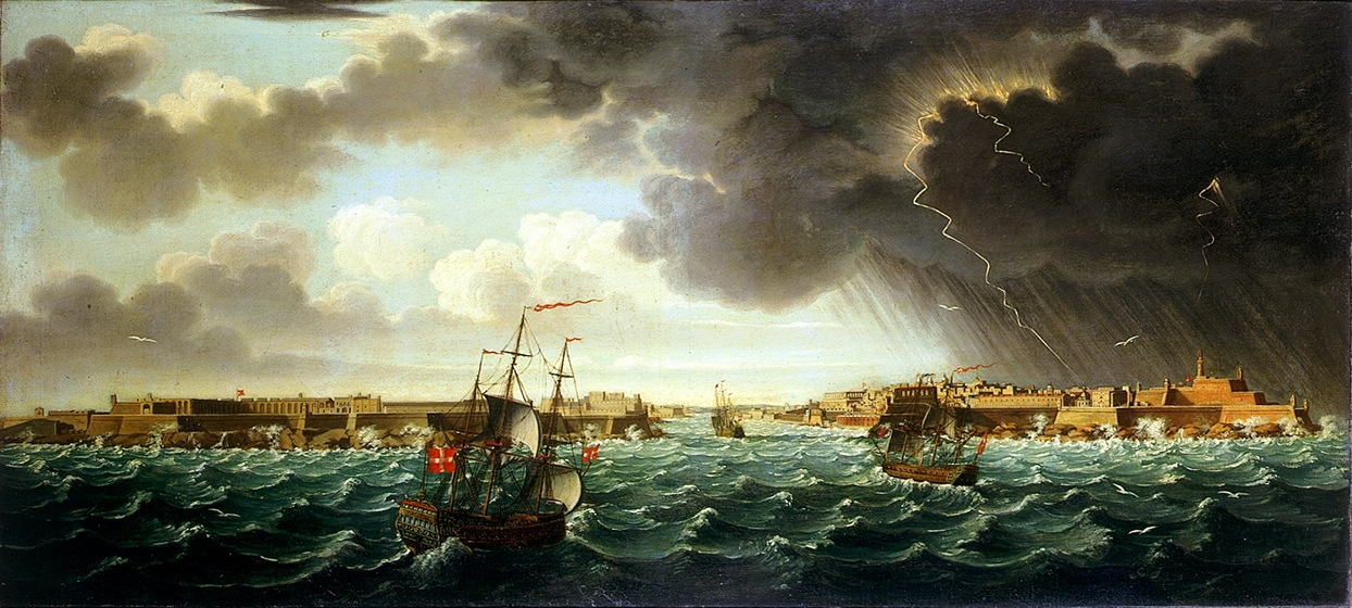 Isle of Malta. View of the entrance of the port of Valletta around 1750 with ships of the order of Saint John of Jerusalem under a storm.